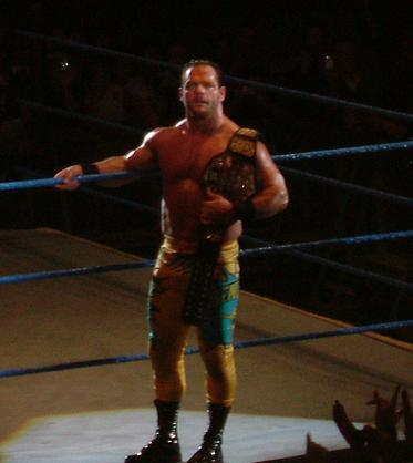 Chris Benoit at SmackDown! in 2006